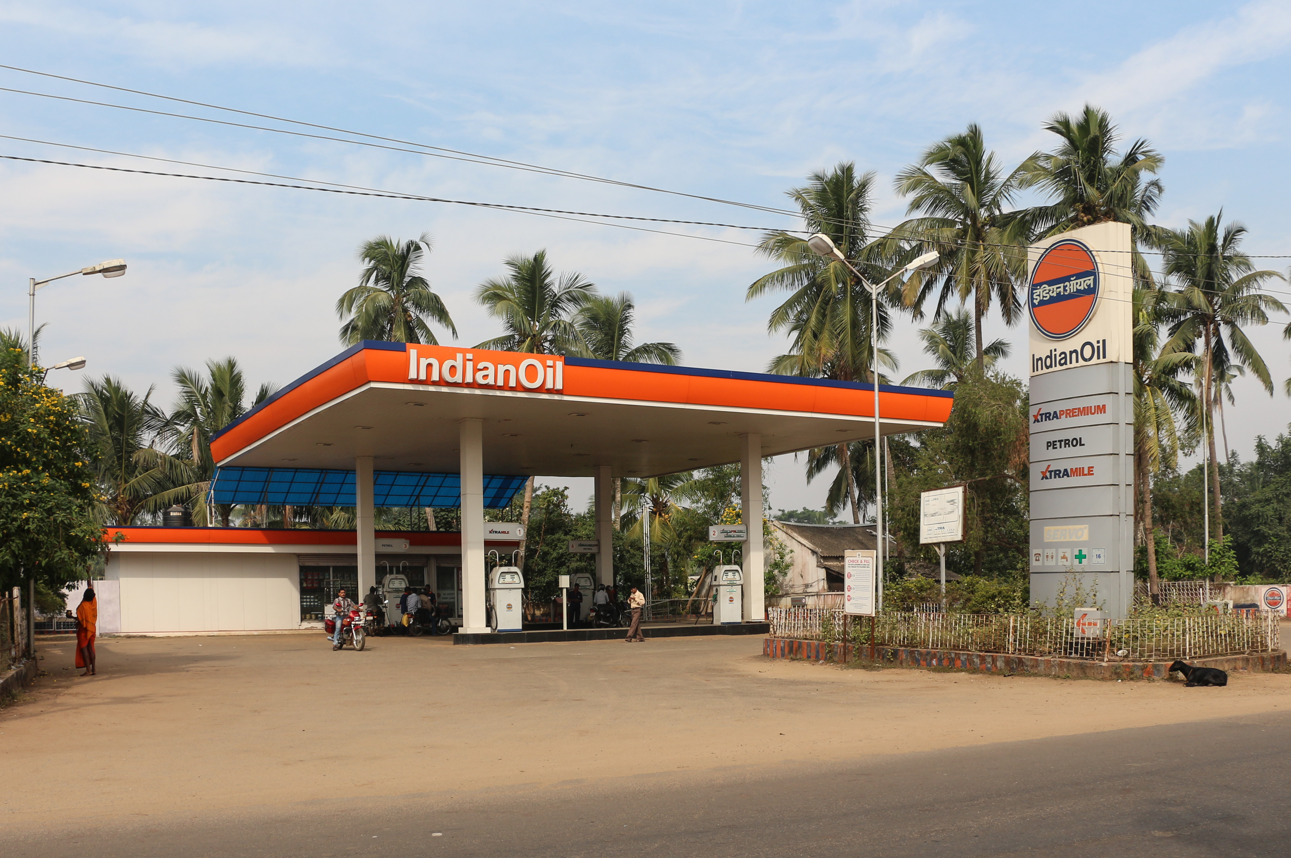 IndianOil service station in Pipili, Odisha, India